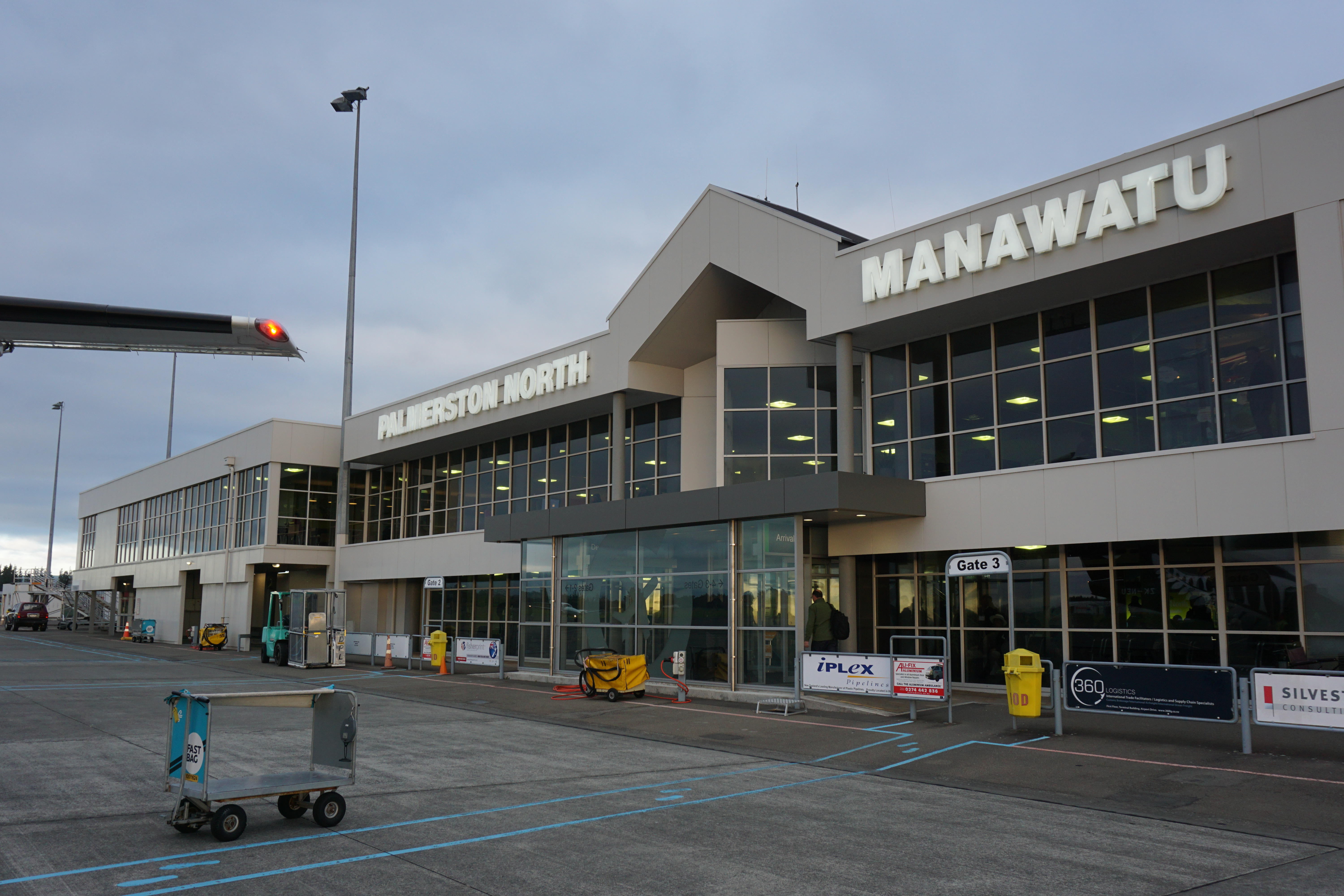 Taken after flight from Auckland